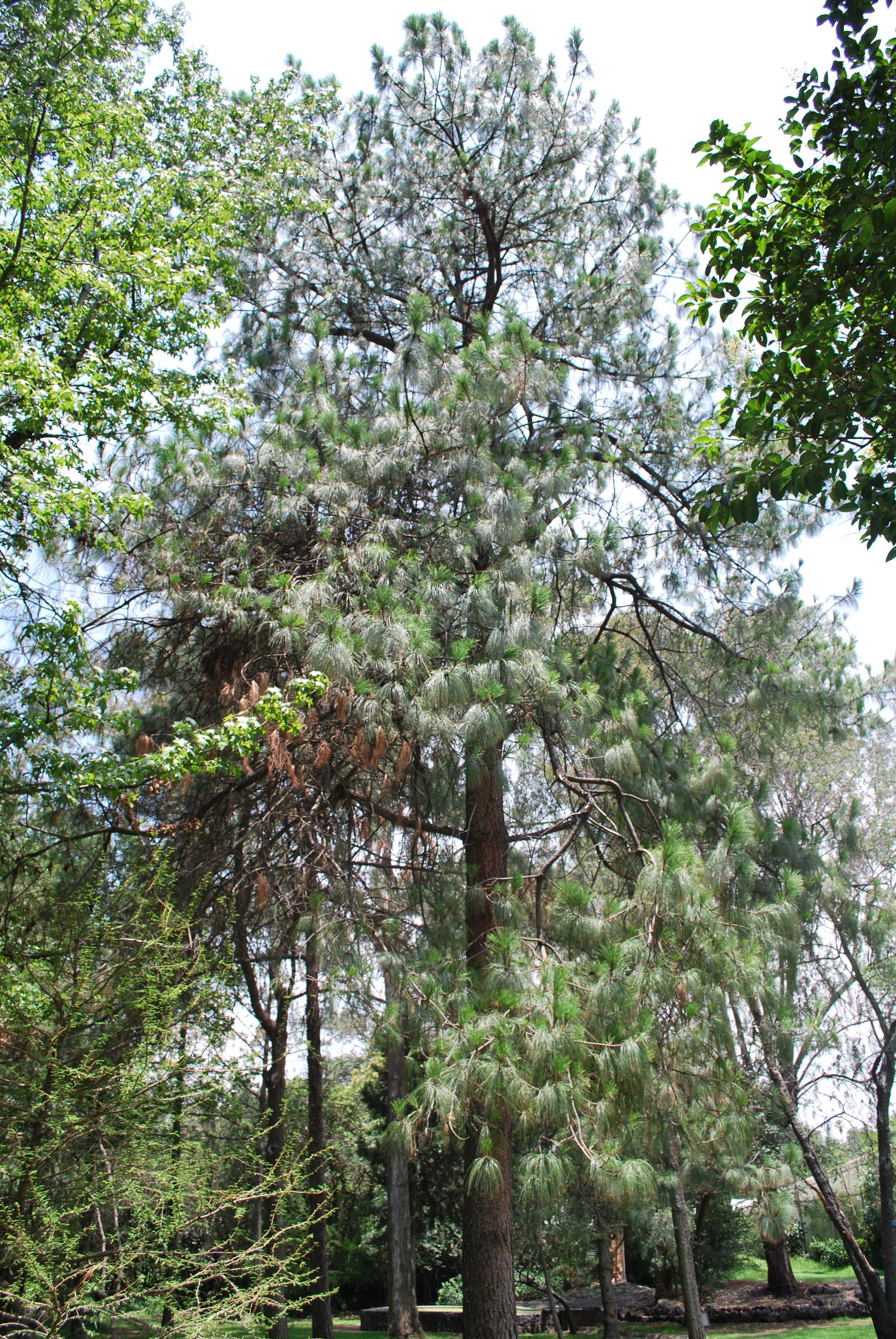 Pinus pseudotrobus (pino blanco) at the arboretum of the Botanical Garden of UNAM in Mexico City